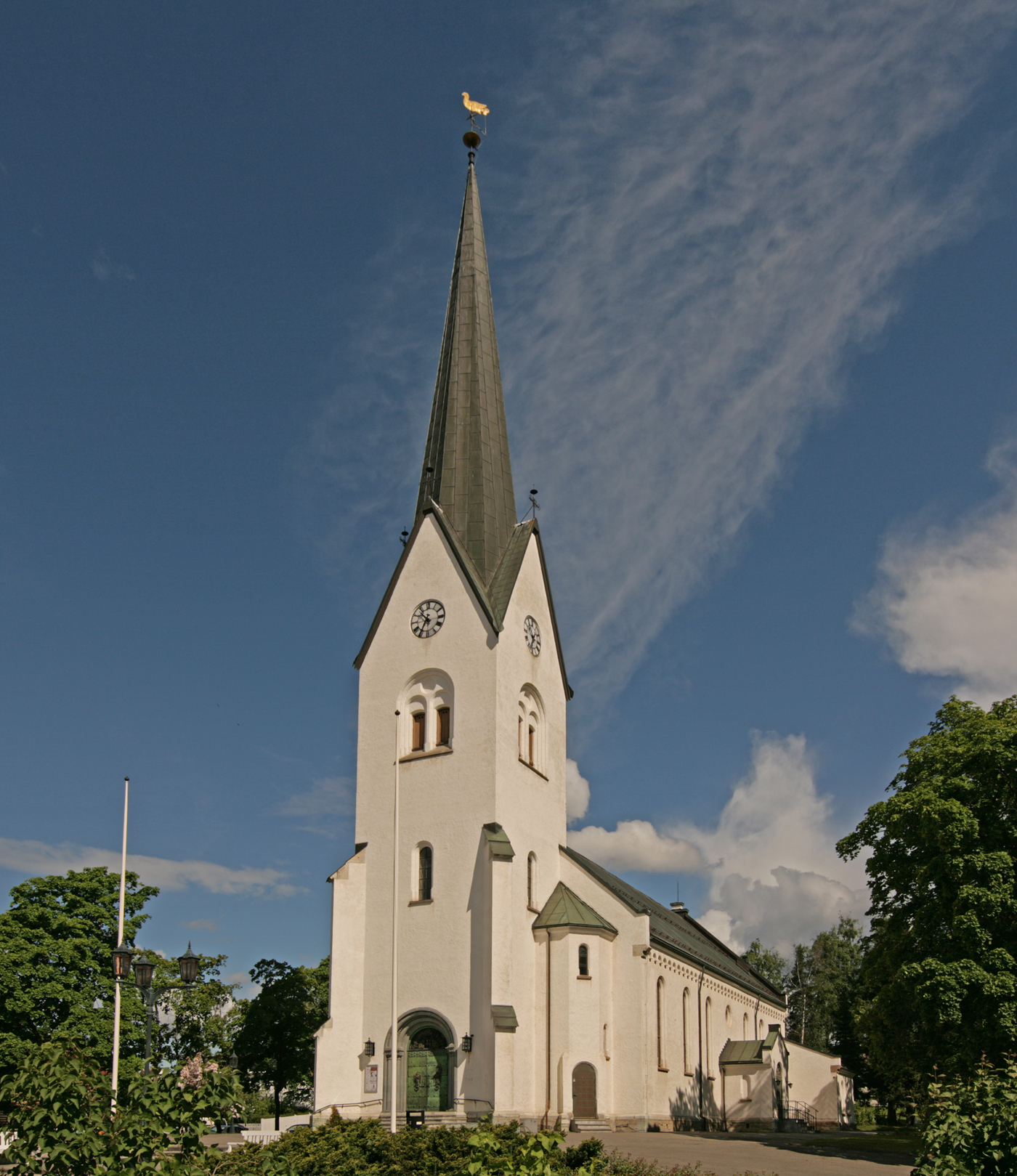 Hamar domkirke (cathedral). Built 1866; architect Heinrich Ernst Schirmer. Interior rebuilt 1950s; architect Arnstein Arneberg.